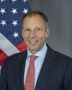 Francis R. Fannon official photo